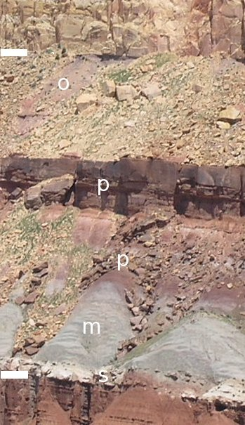 Photo taken by Daniel Mayer in June 2005. Edited using the GIMP. The following is the Chinle Formation sequence (the sequence found in Capitol Reef NP)-(3-subunits?). The Chinle is framed between the upper cliff of Wingate Sandstone, and the deep red Moenkopi Formation. (Note: The "M", is probably "Monitor Butte Member", but "Moss Back Member" (above it, resistant sandstone, has Uranium).) Wingate Sandstone ( sandstone cliffs) 4-Owl Rock Member 4A-(DARK BAND-Unidentified?) either unknown, or (?-Upper Petrified F, or Owl Rock?) 3-Petrified Forest Member (Upper ?) 3-Petrified Forest Member (Lower ?) 2-Monitor Butte Member 1-Shinarump Conglomerate (resistant, conglomerate (geology)) Moenkopi Formation (deep red, but erodable, unlike resistant sandstone)